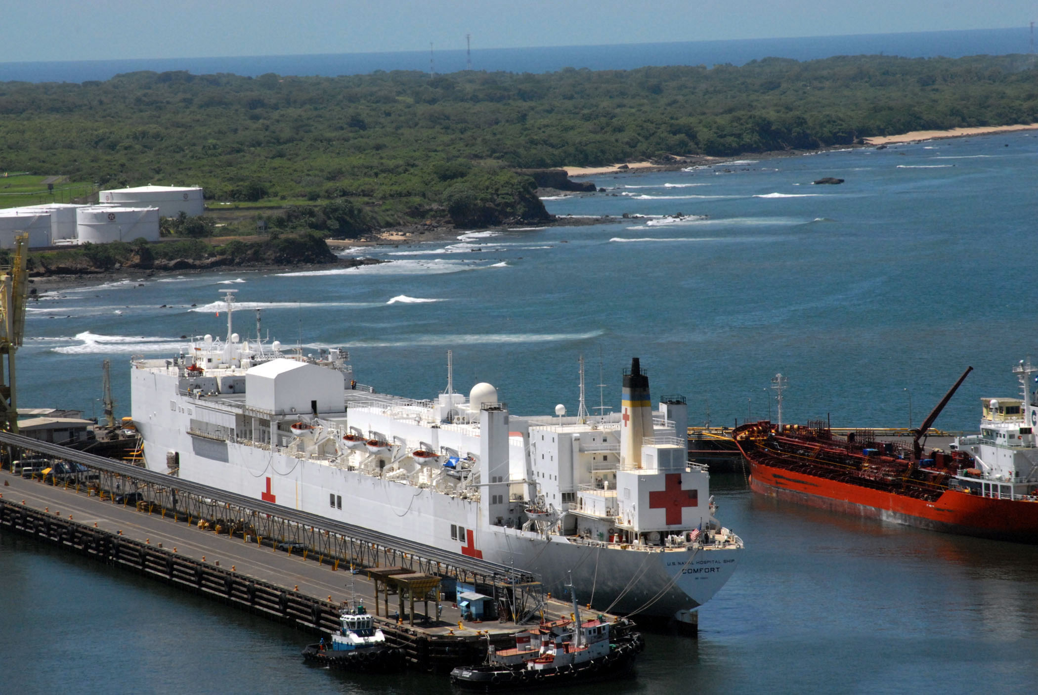 ACAJUTLA, El Salvador (Aug. 8, 2007) - The Military Sealift Command (MSC) hospital ship USNS Comfort (T-AH 20) is moored in Acajutla, El Salvador during a scheduled port visit. Comfort is on a four-month humanitarian deployment to Latin America and the Caribbean providing medical treatment to patients in a dozen countries. U.S. Navy photo by Mass Communication Specialist 2nd Class Joshua Karsten (RELEASED)